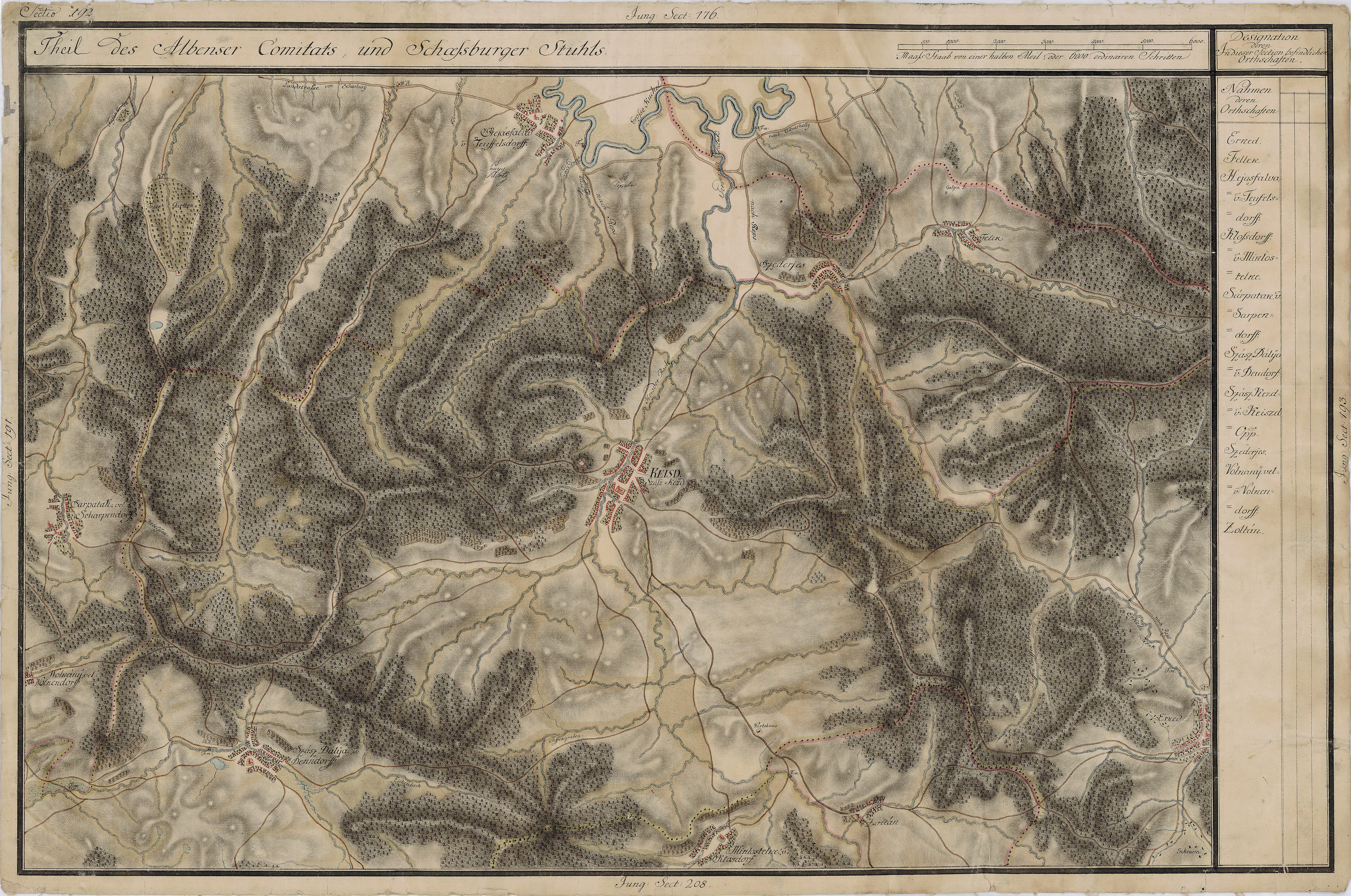 Grand Duchy of Transylvania, 1769-1773. Josephinische Landaufnahme pg.192